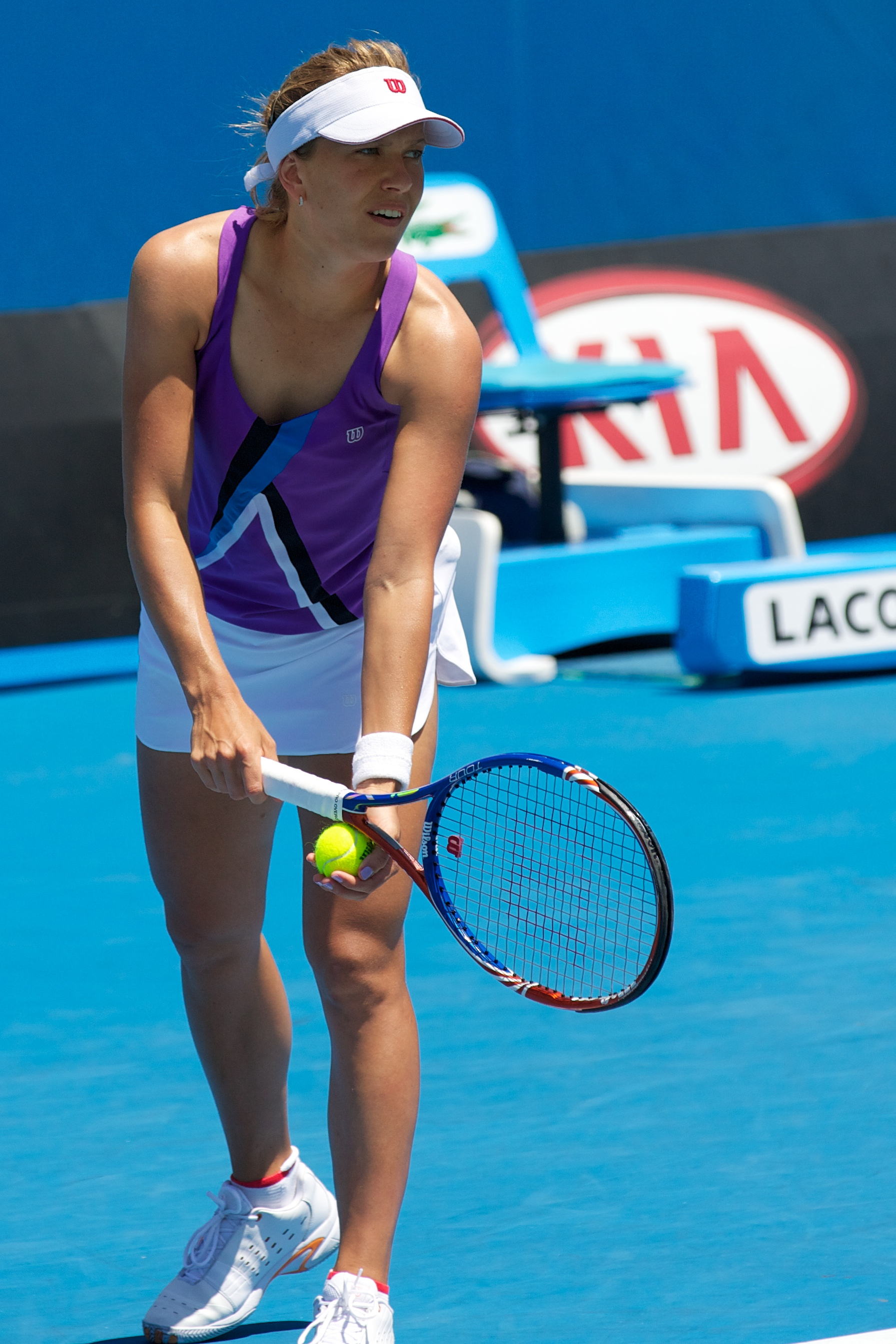 Barbora Zahlavova at the 2011 Australian Open